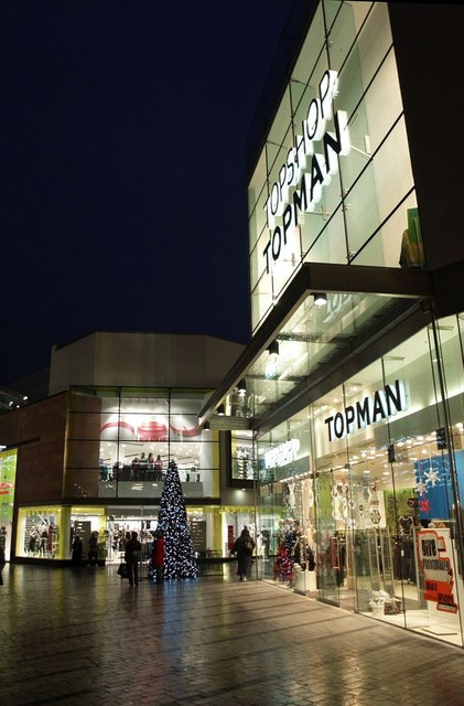 Topshop, Exeter A Christmas tree outside the new Topshop on Blue Boy Square, Princesshay, Exeter. Across Eastgate is New Look.